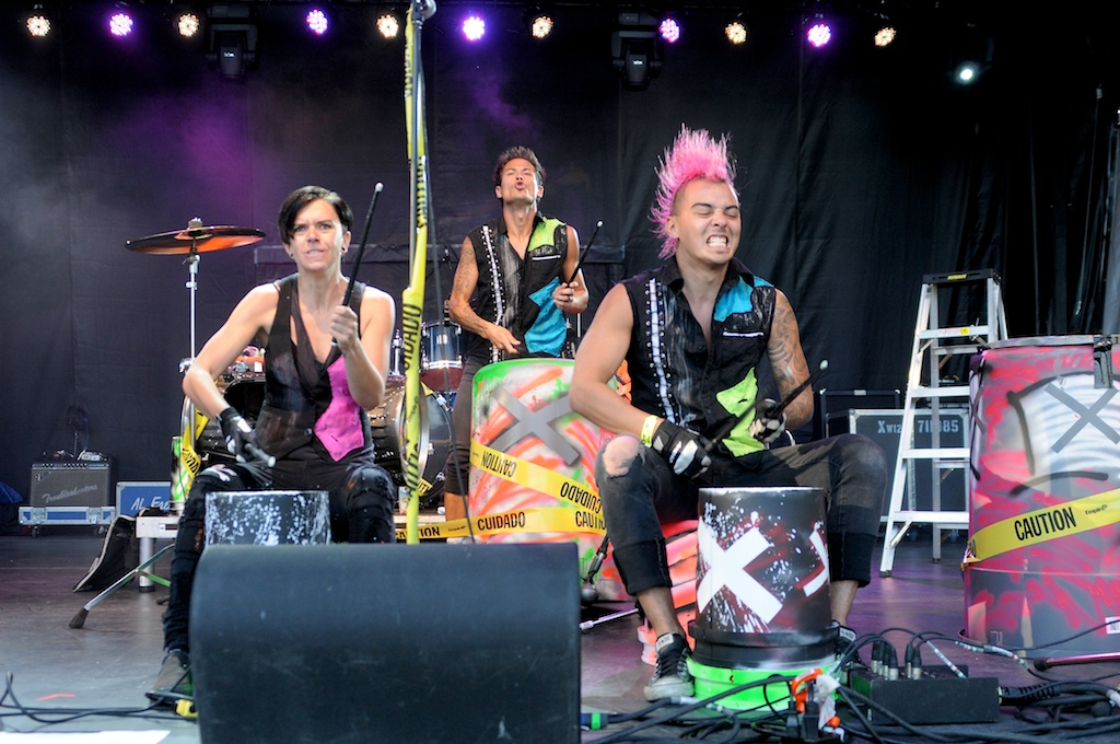 Street Drum Corps at the 2011 Ottawa Folk Festival. Photo by: Brennan Schnell